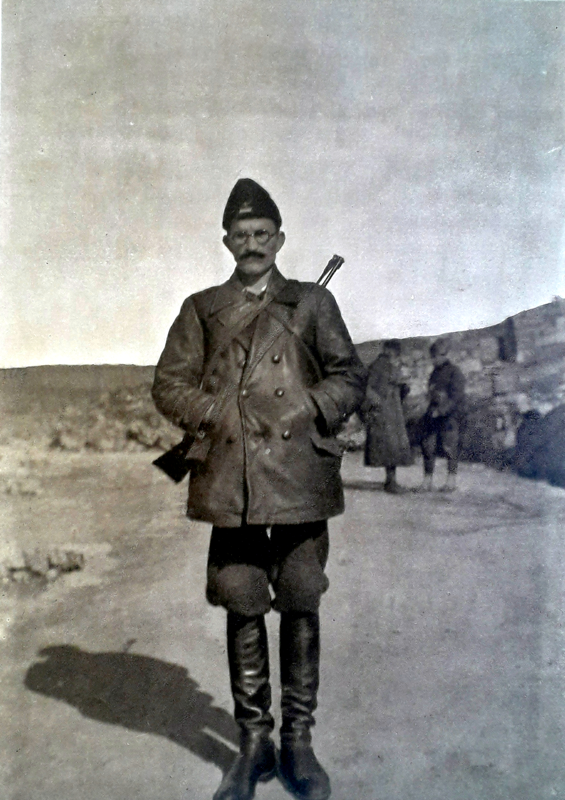 Ivan Milutinović